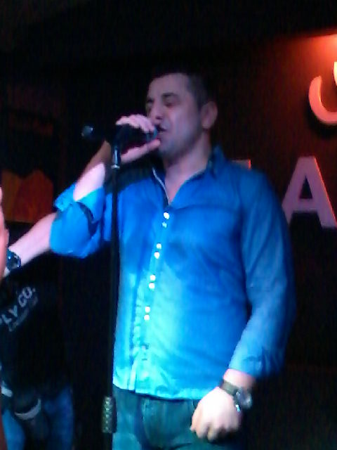 Serbian folk-singer Jovan Perišić, 2013.